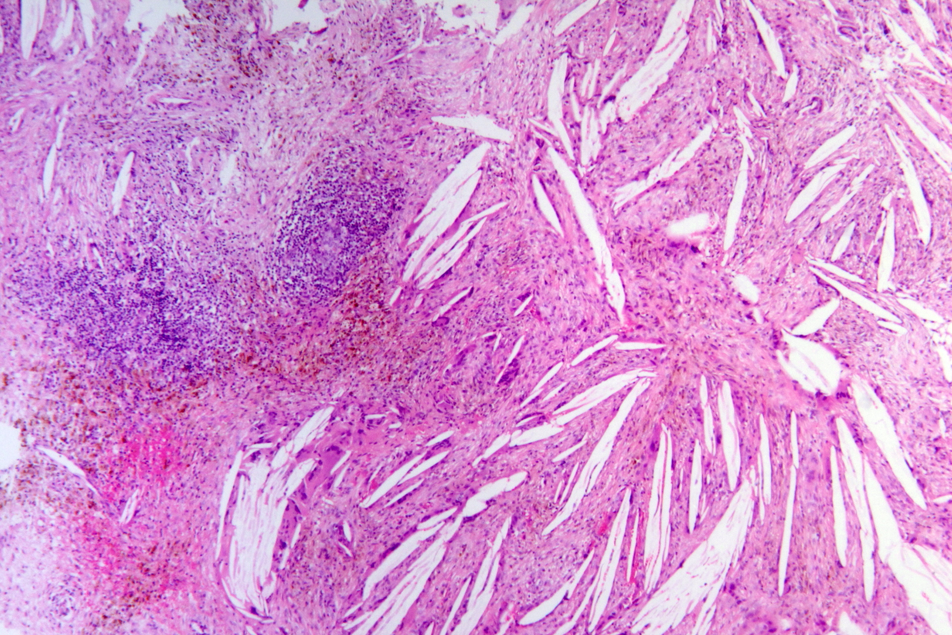 Extended inflammatory response with otic polyp formation in a case of cholesteatoma. HE stain.